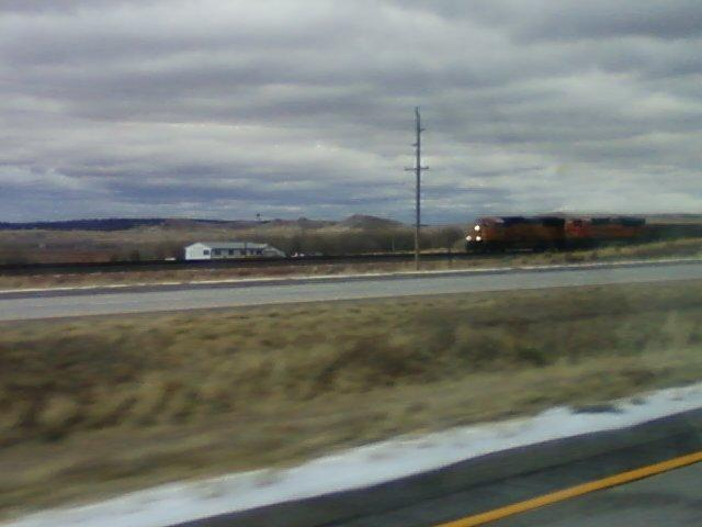 BNSF train headed north in Platte County, Wyoming along Interstate 25.